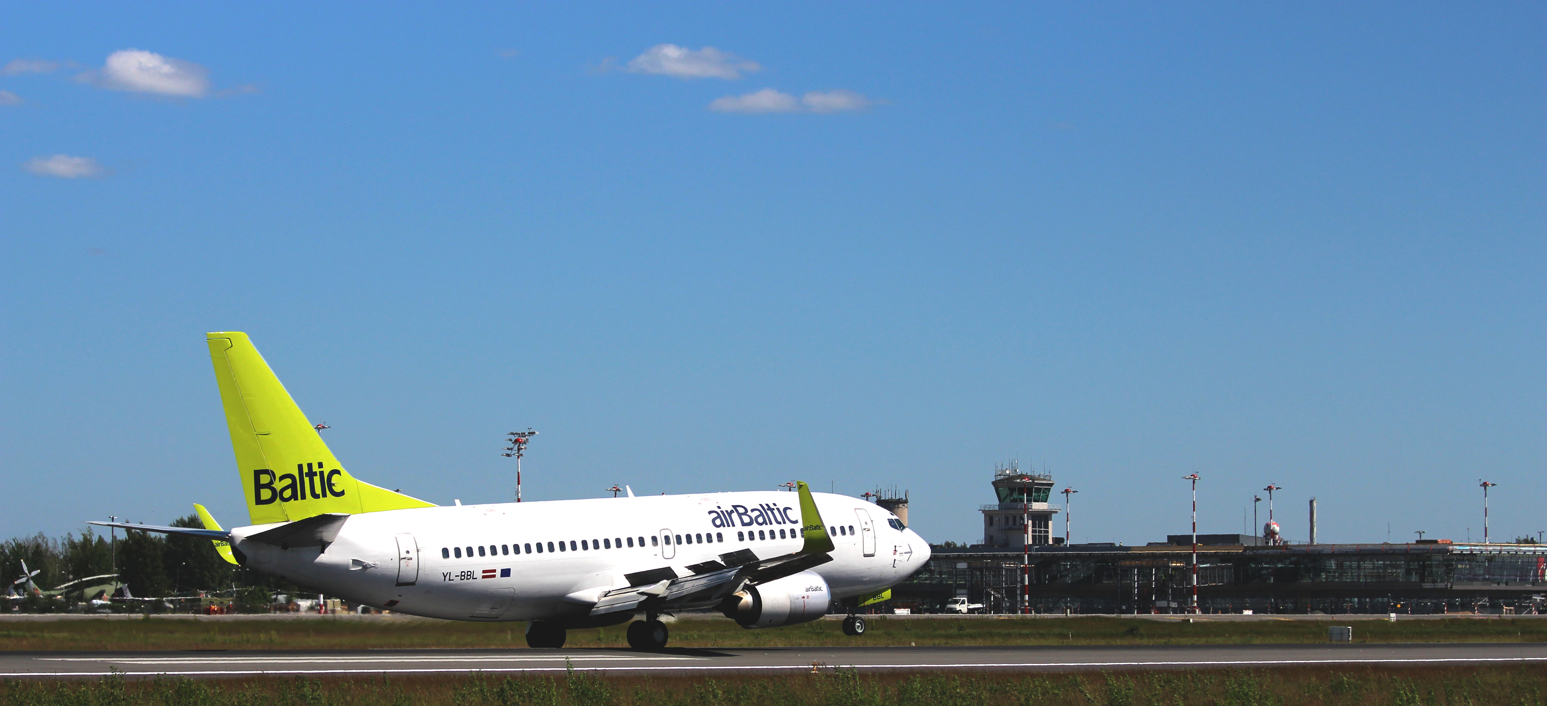 AirBaltic aircraft in Riga International Airport